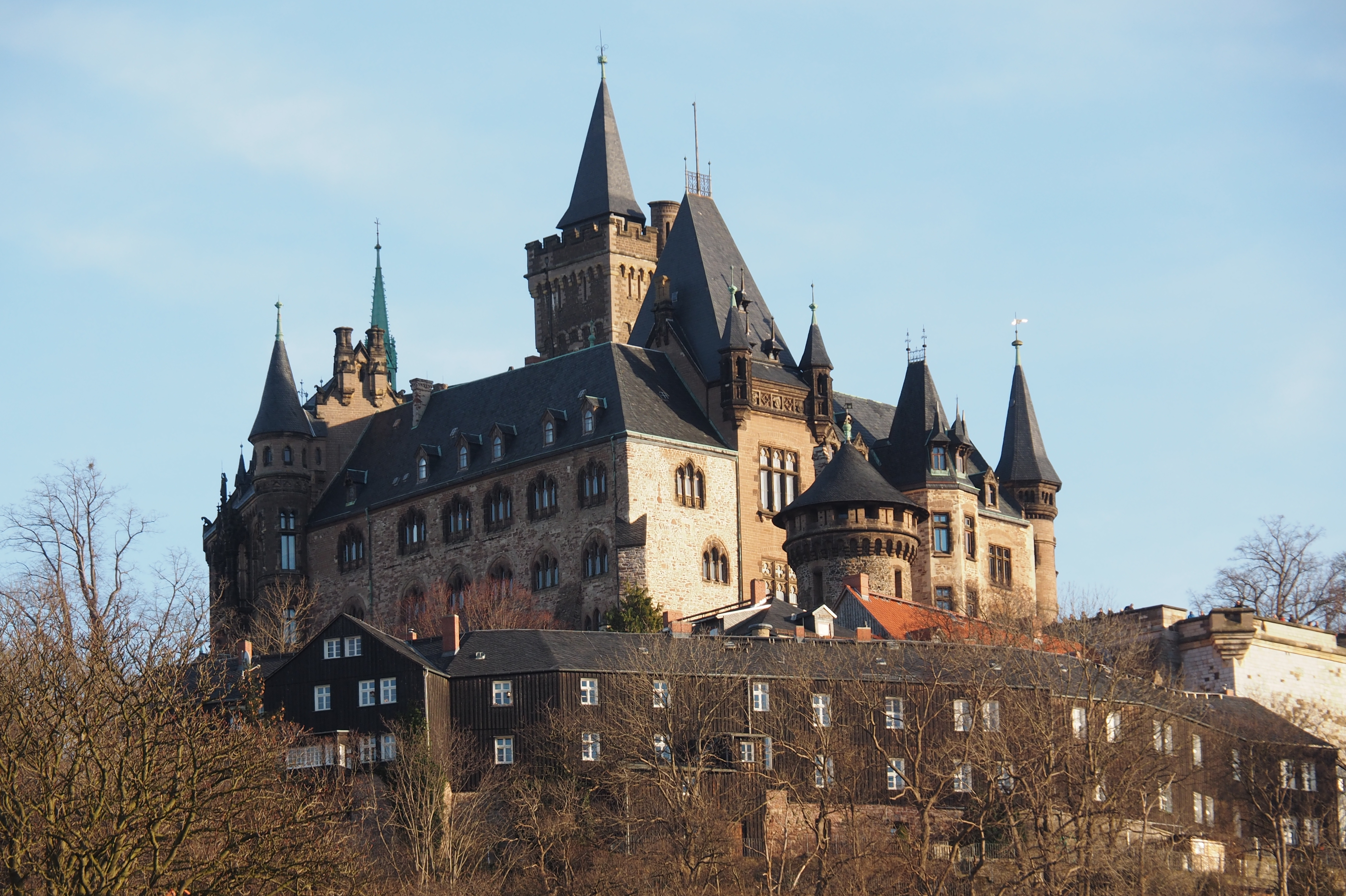 Castle of Wernigerode in Saxony-Anhalt (Germany)